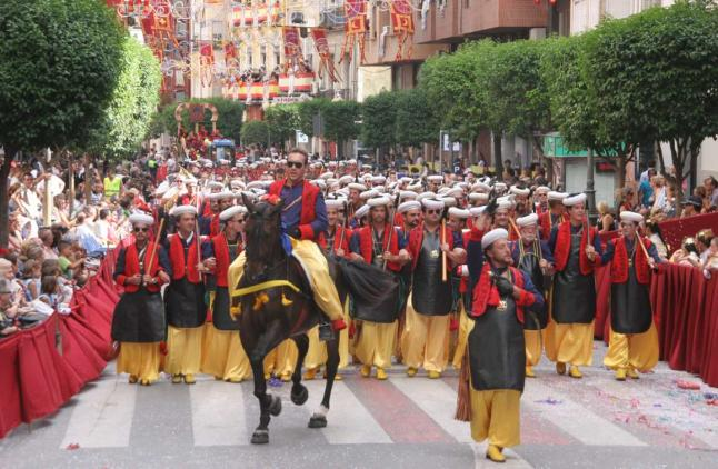 Bloque de la Comparsa de Moros Nuevos de Villena